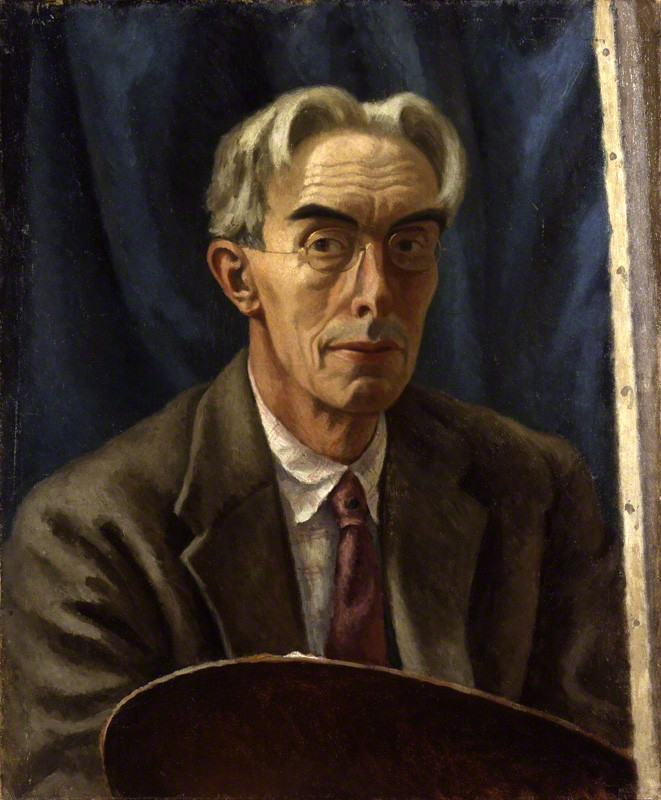 Roger Fry (1866-1934), oil on canvas/NPG 3833. Roger Fry, 1930-1934, given by the sitter's sister, (Sara) Margery Fry, 1952